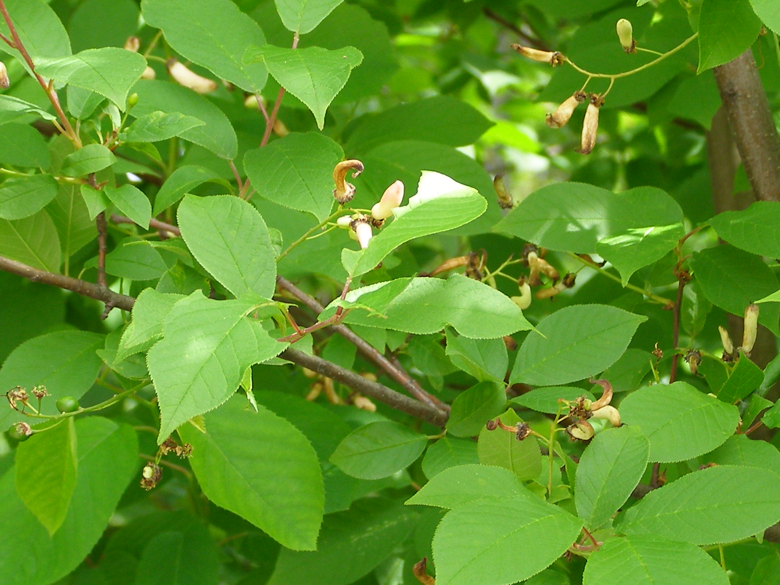 Fruit deformations caused by Taphrina pruni in a Bird Cherry